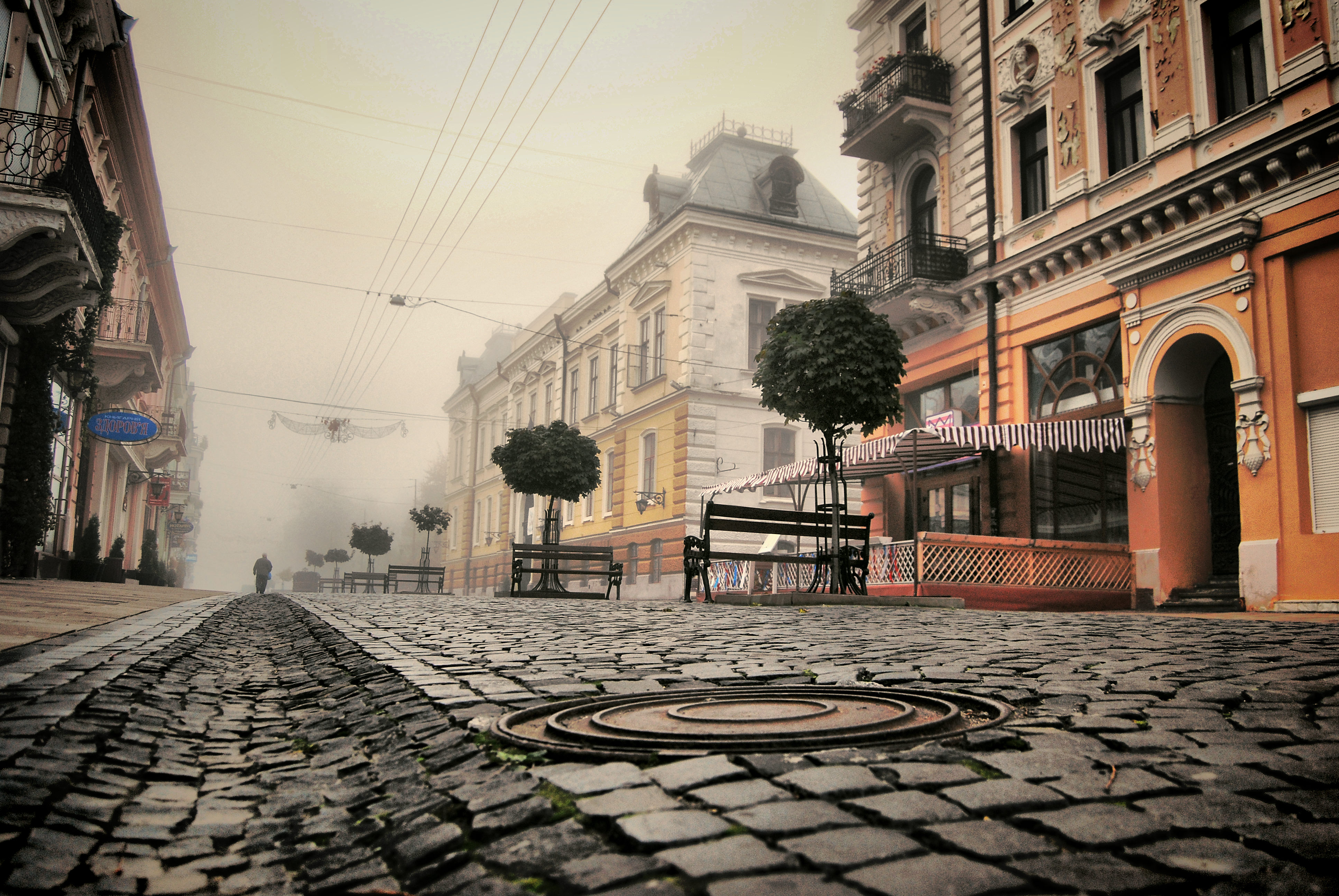 Pershotravnevyi district, Chernivtsi, Chernivets'ka oblast, Ukraine